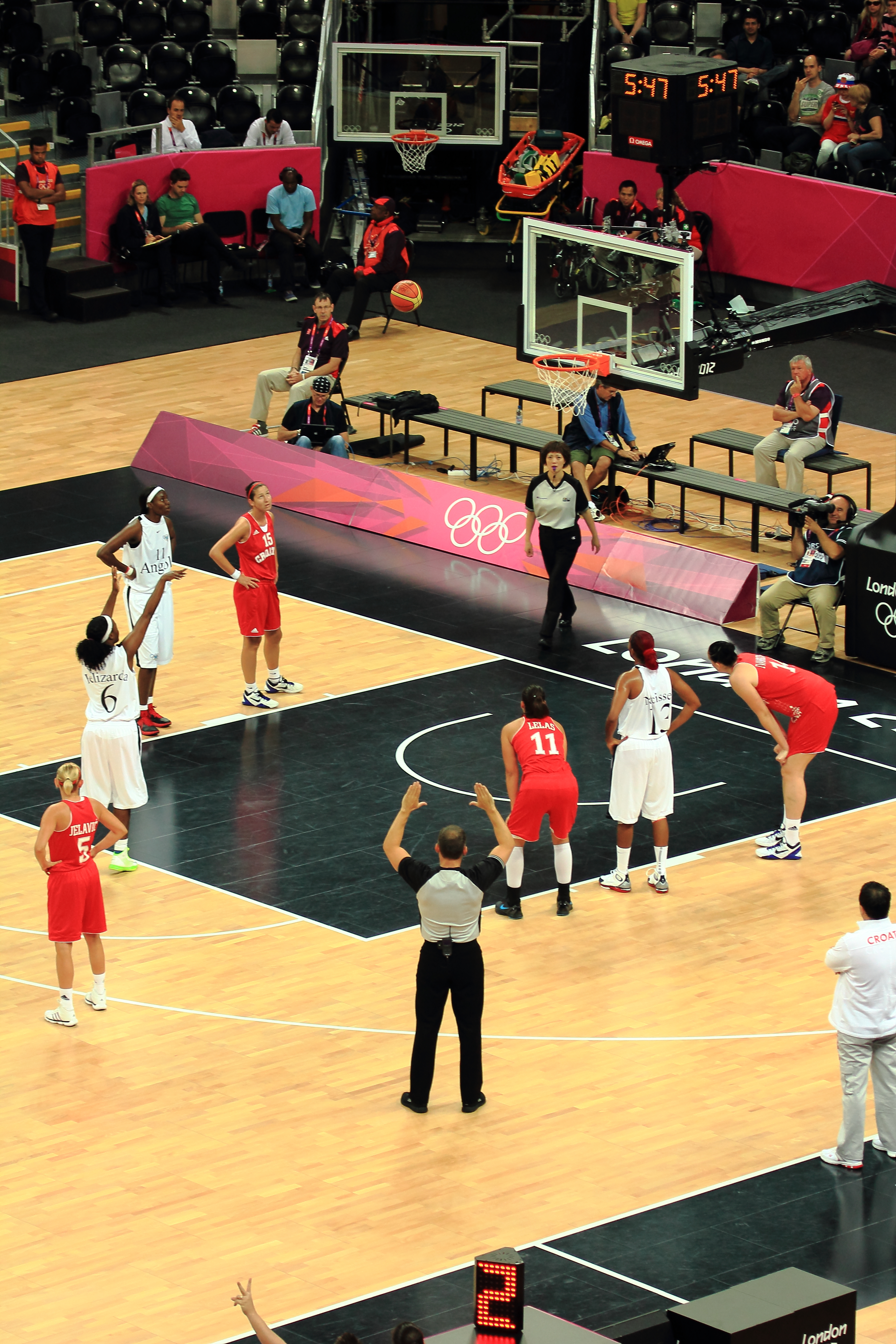 Free shot for Angola, Croatia eventually won this Olympic premilinary Group A match 75-56